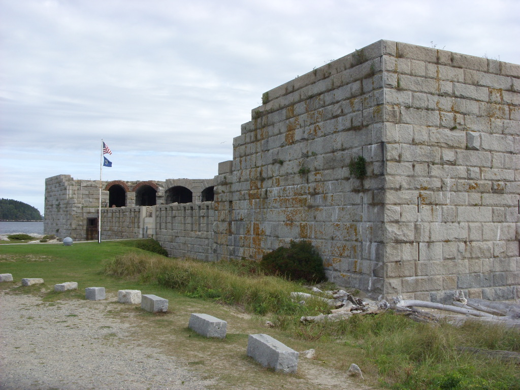 Taken in Fort Popham, Phippsburg, Maine, United States